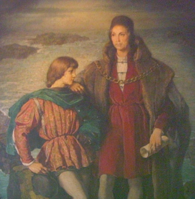 Christoph and Diego Columbus (left), Santo Domingo.